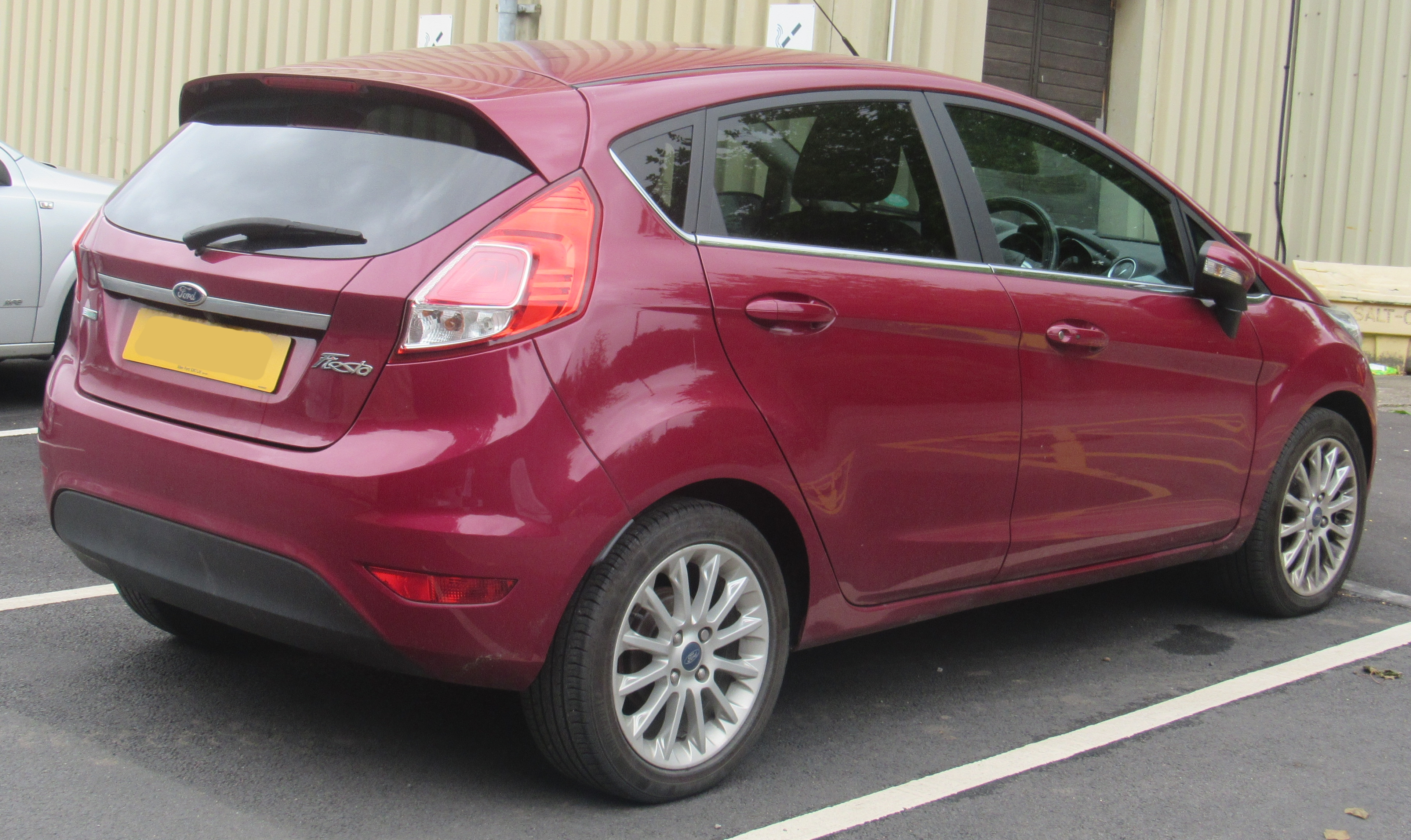 2014 Ford Fiesta Titanium X EcoBoost 1.0 Rear Taken in Leamington Spa